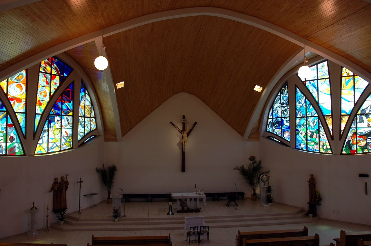 Interior of the St. Cyril and Method church in Pustkovec, Ostrava, Czech Republic